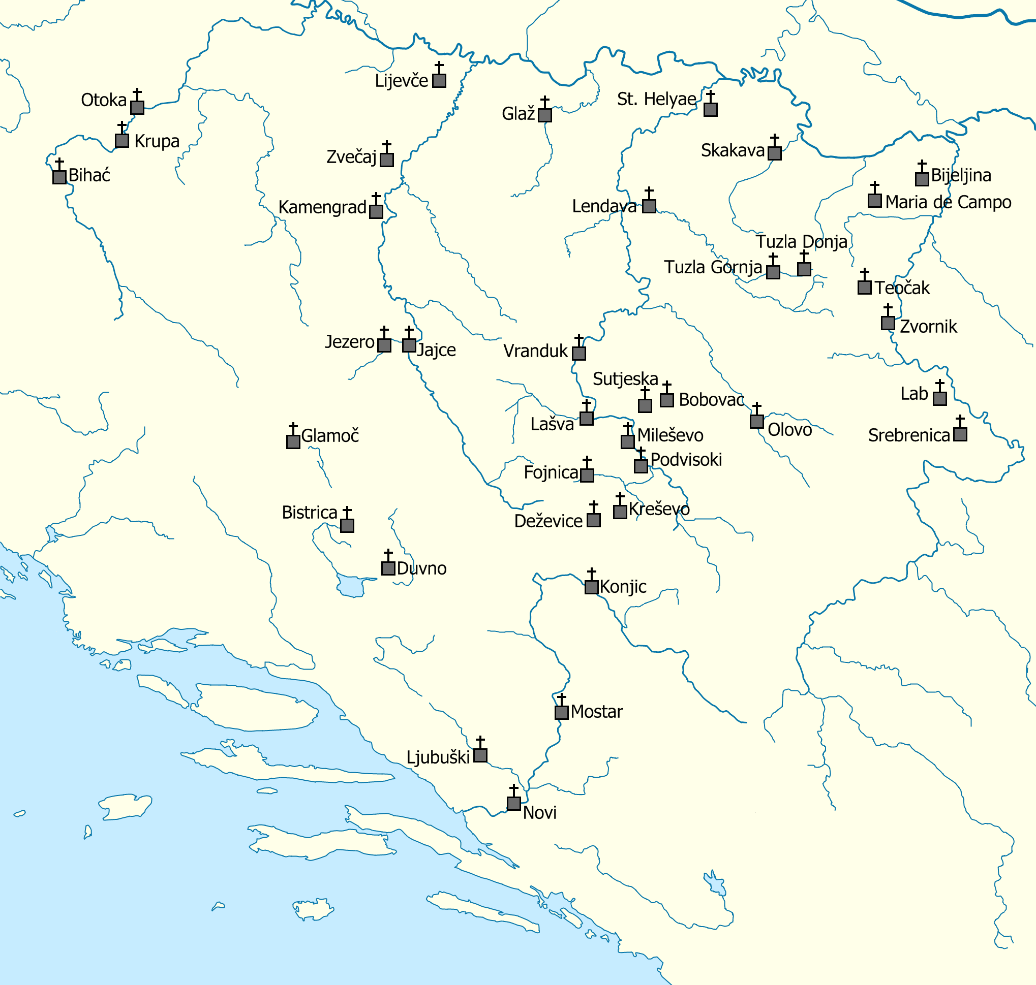 Roman Catholic monasteries in Bosnia in the 15th centuryHrvatski: Katolički samostani na području Bosne u 15. stoljeću